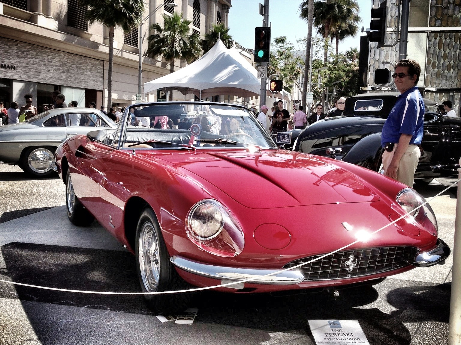 1967 Ferrari 365 California, exhibited at the 2013 Rodeo Drive Concours d'Elegance.